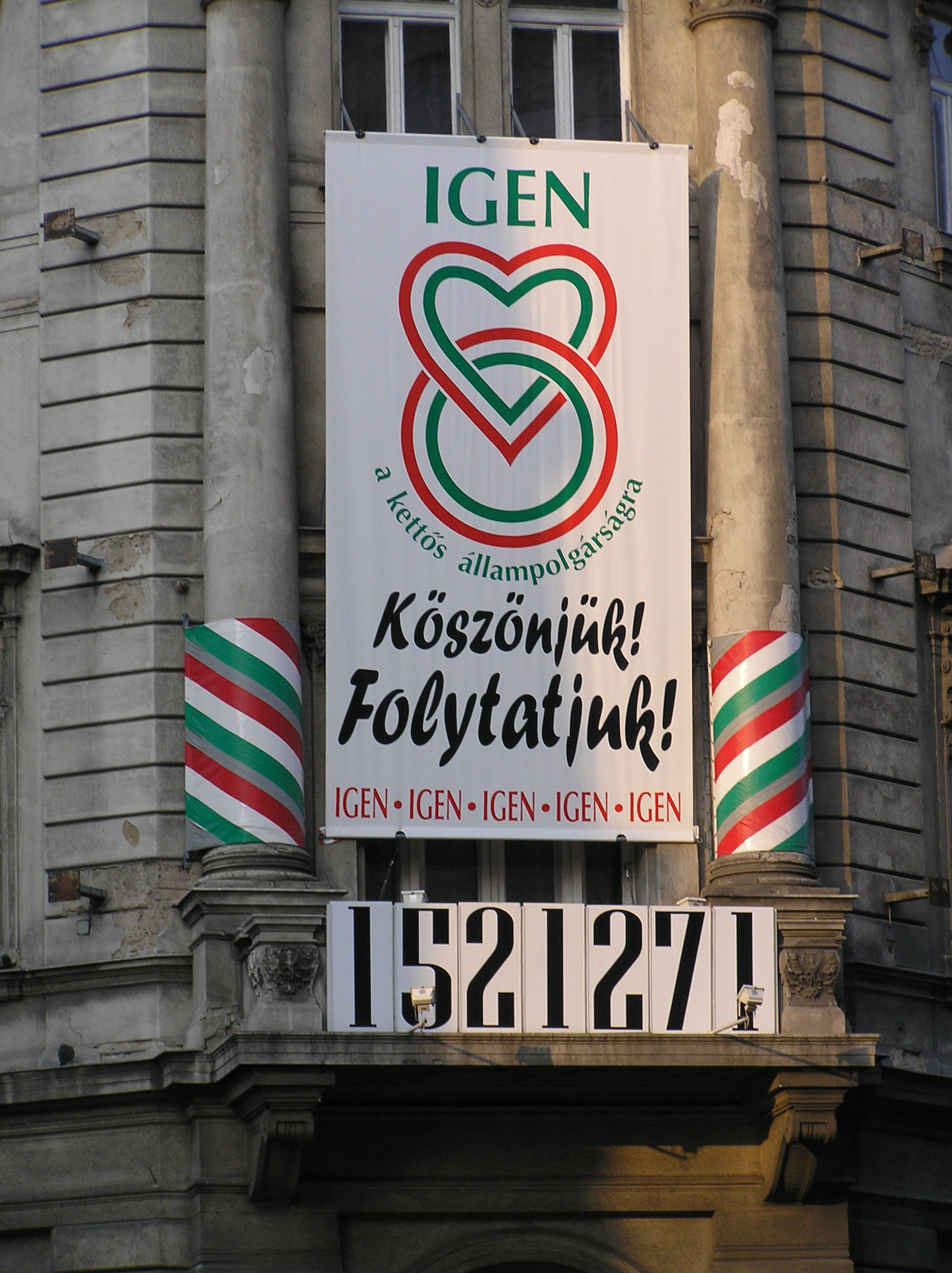 Poster of the World Federation of Hungarians after the 2004 Hungarian referendum